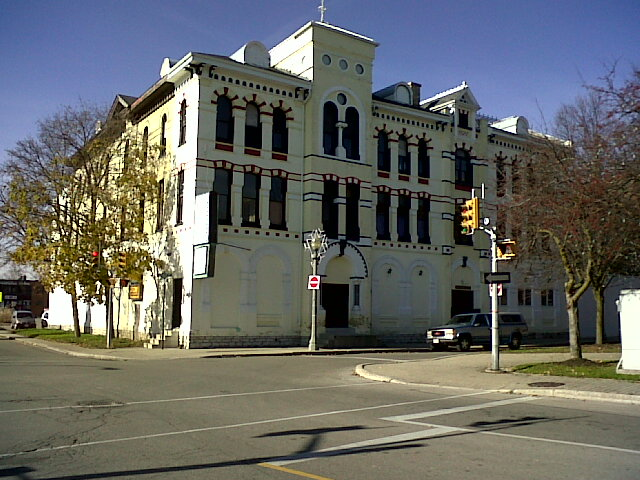 The Oxford Hotel in Woodstock, Ontario. It sits beside the Woodstock Museum on Finkle Street. 2012.